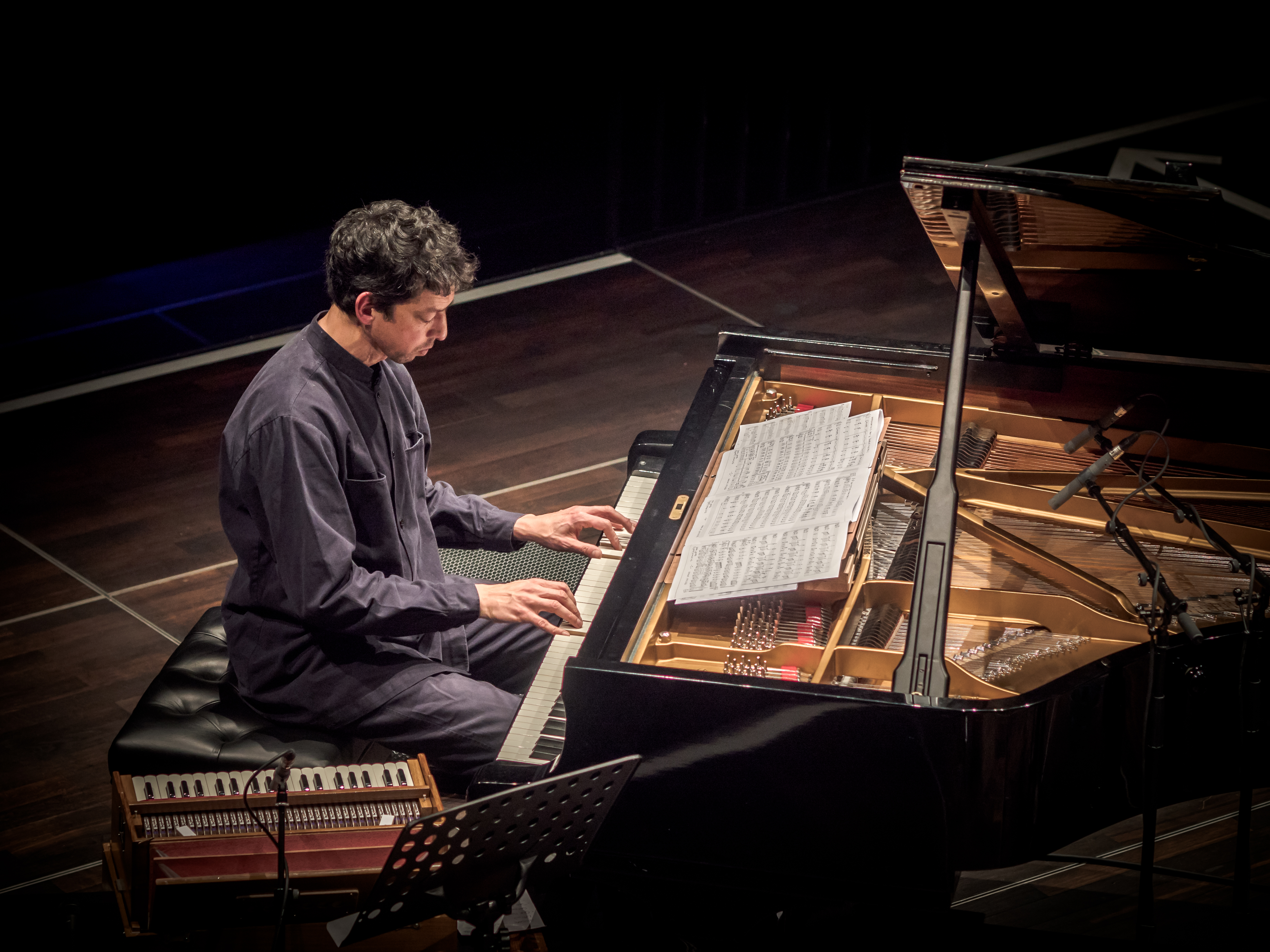 Der indische Jazz Pianist Jarry Singla & Eastern Flowers am 18. März 2018 im Strawinsky Saal der Donauhallen.